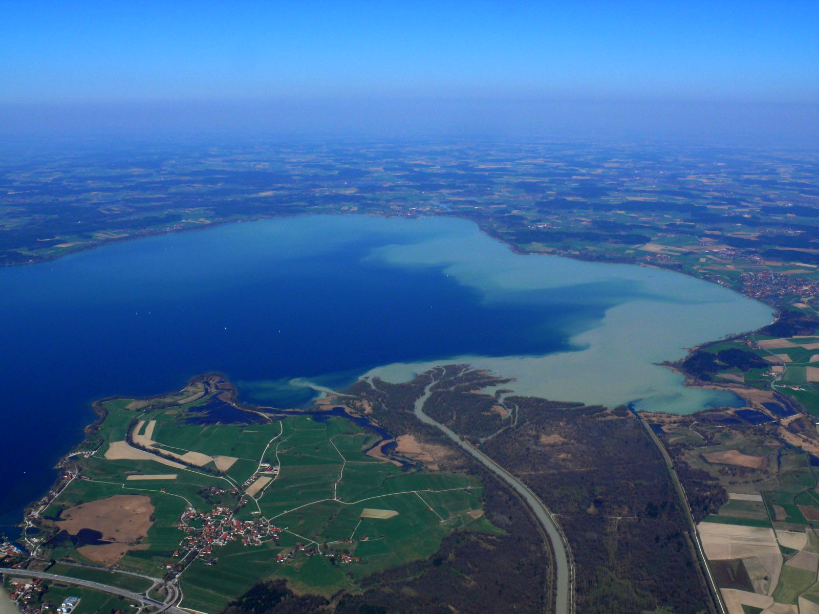 Tiroler Achen